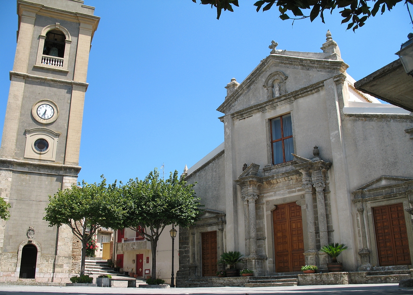 Church Maria SS Assunta